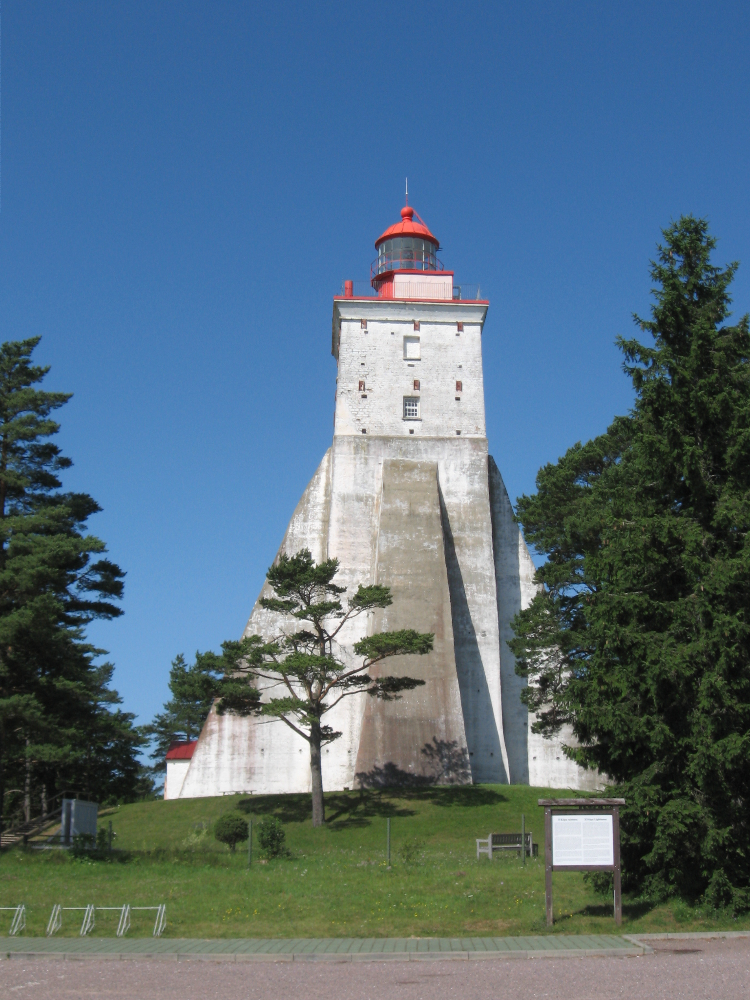 Kõpu Lighthouse. Hiiumaa, Estonia.